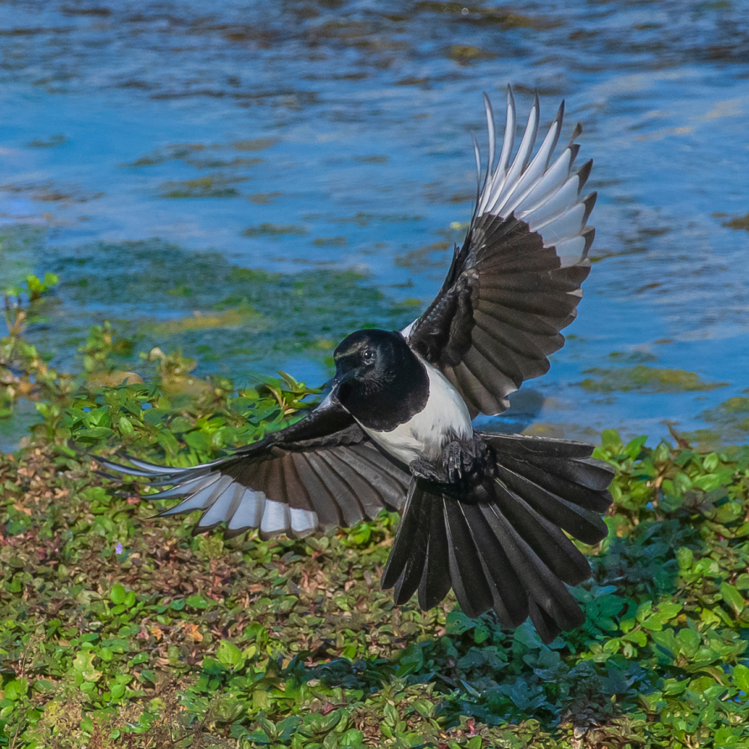 A magpie's underside is visible as it swoops to the ground